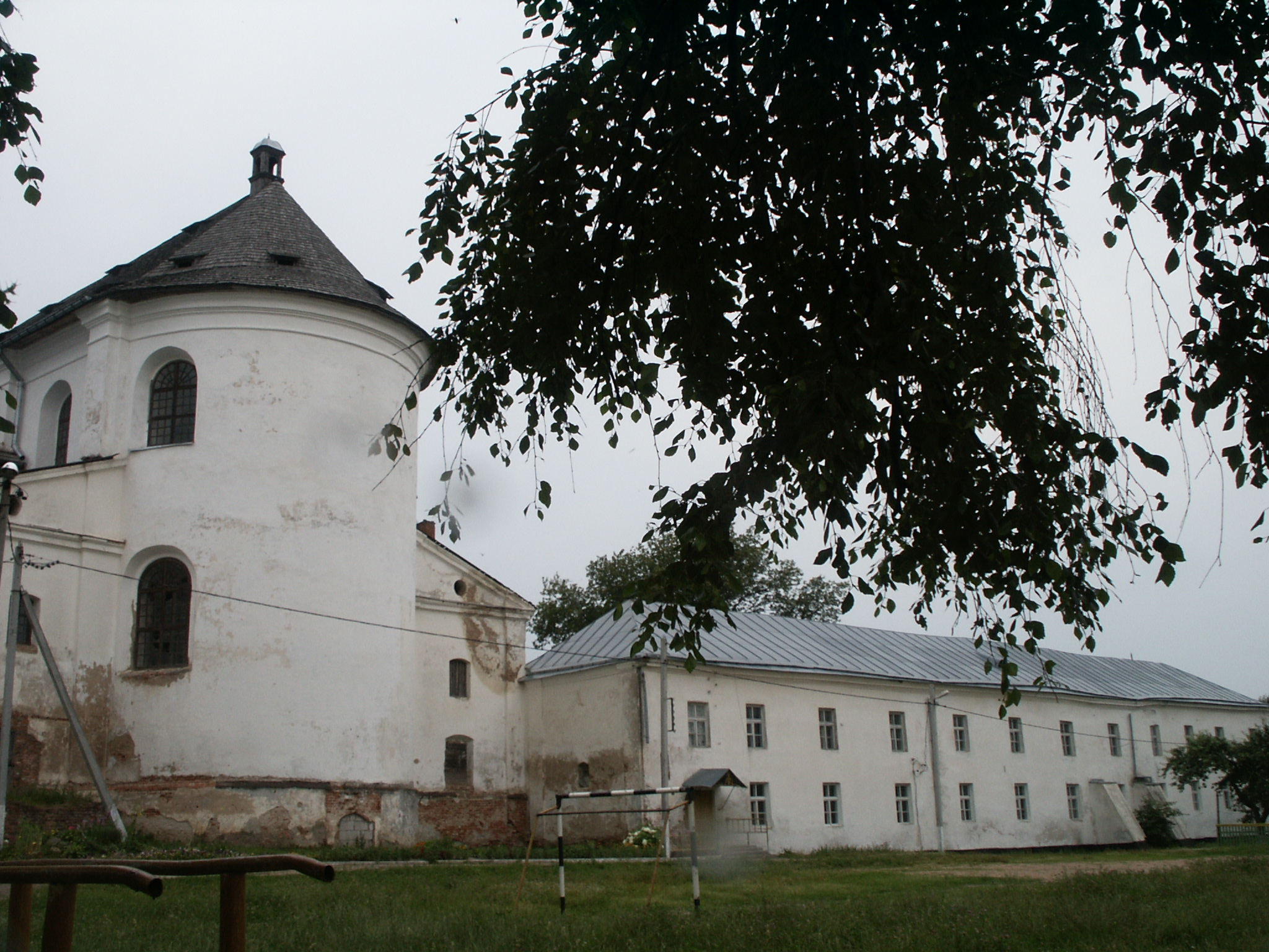 Mstislaw Jesuit Collegium building front (XVII century)